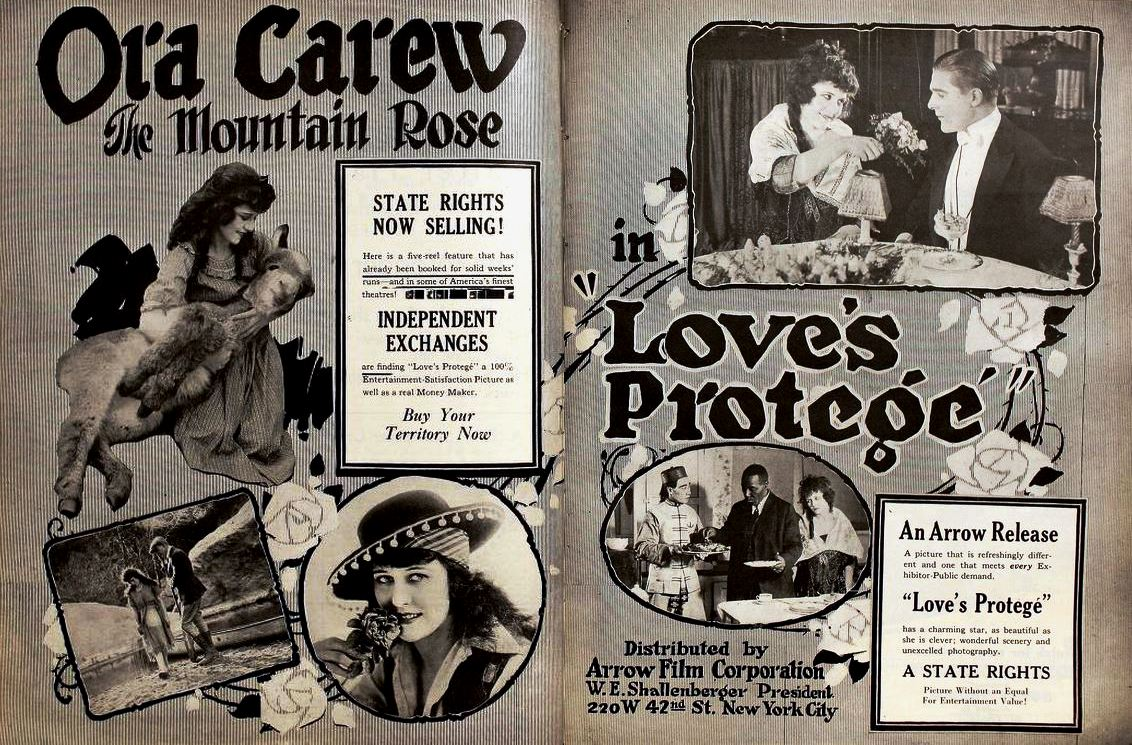 Advertisement for the American drama film Love's Protegé (1920) with Ora Carew and an unidentified actor, on pages 4744 and 4745 of the June 12, 1920 Motion Picture News.